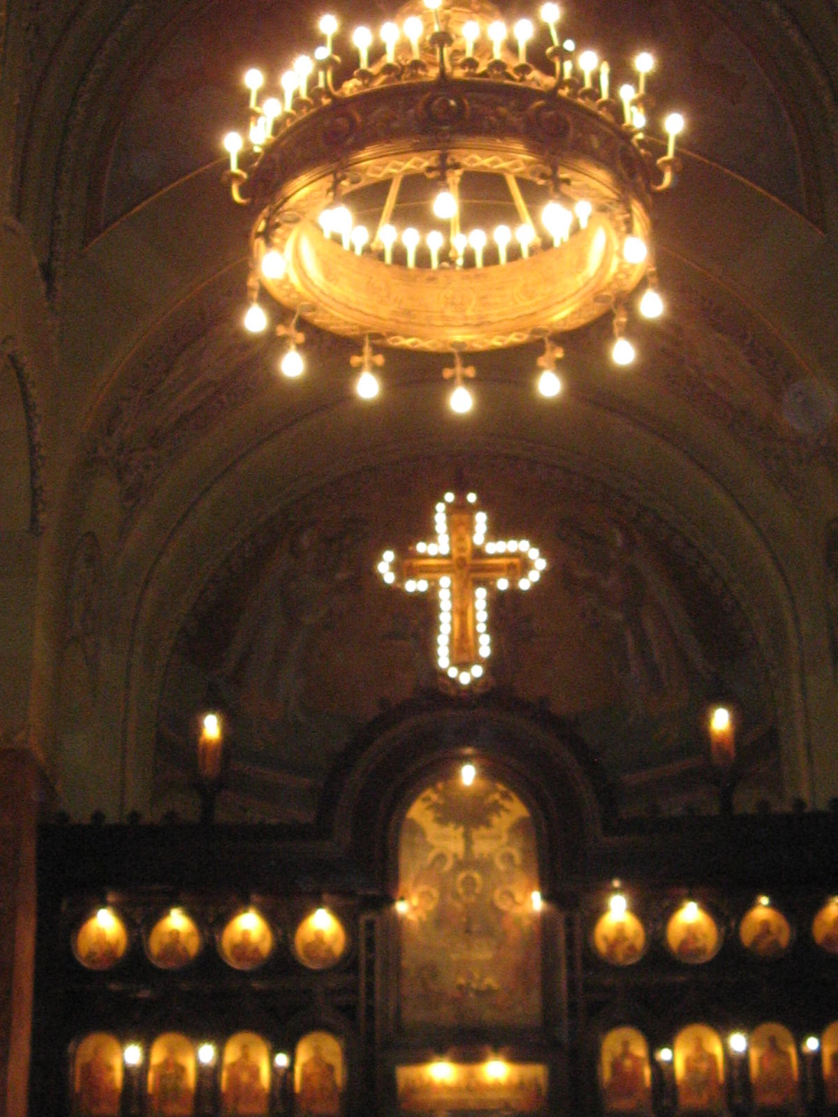 Interior of Alba Iulia Orthodox Cathedral, Alba Iulia, Romania 01